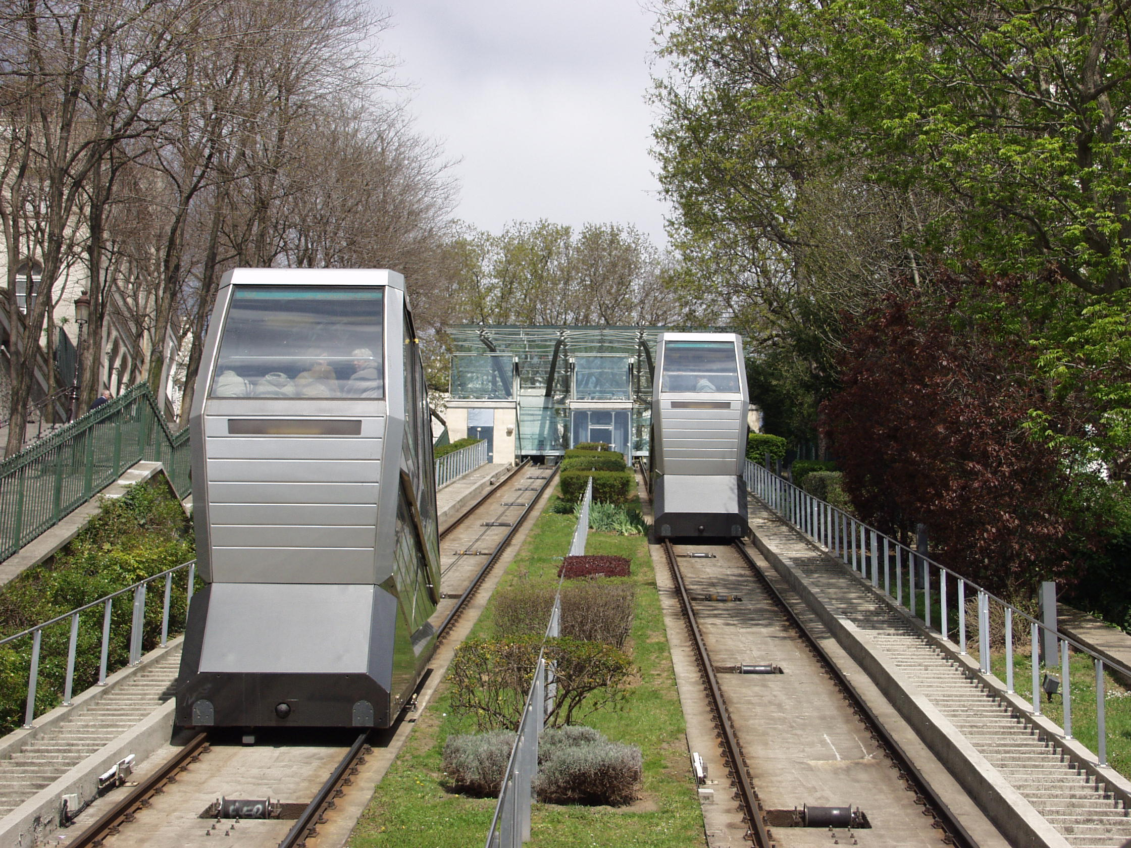 Modern cable car at Montmarte in Paris